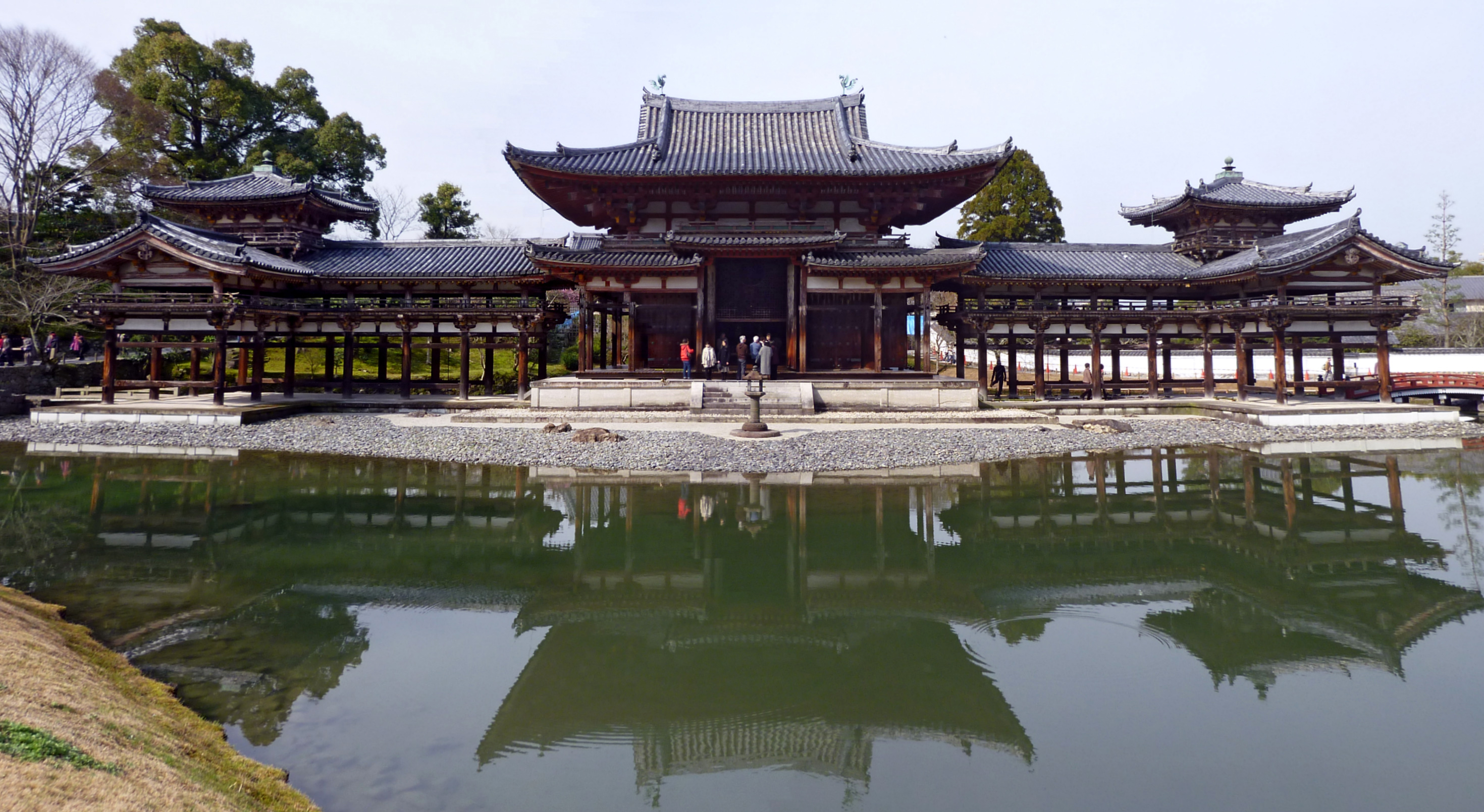 Byōdō-in Phoenix Hall, Uji, Kyoto prefecture, Japan, 1059.